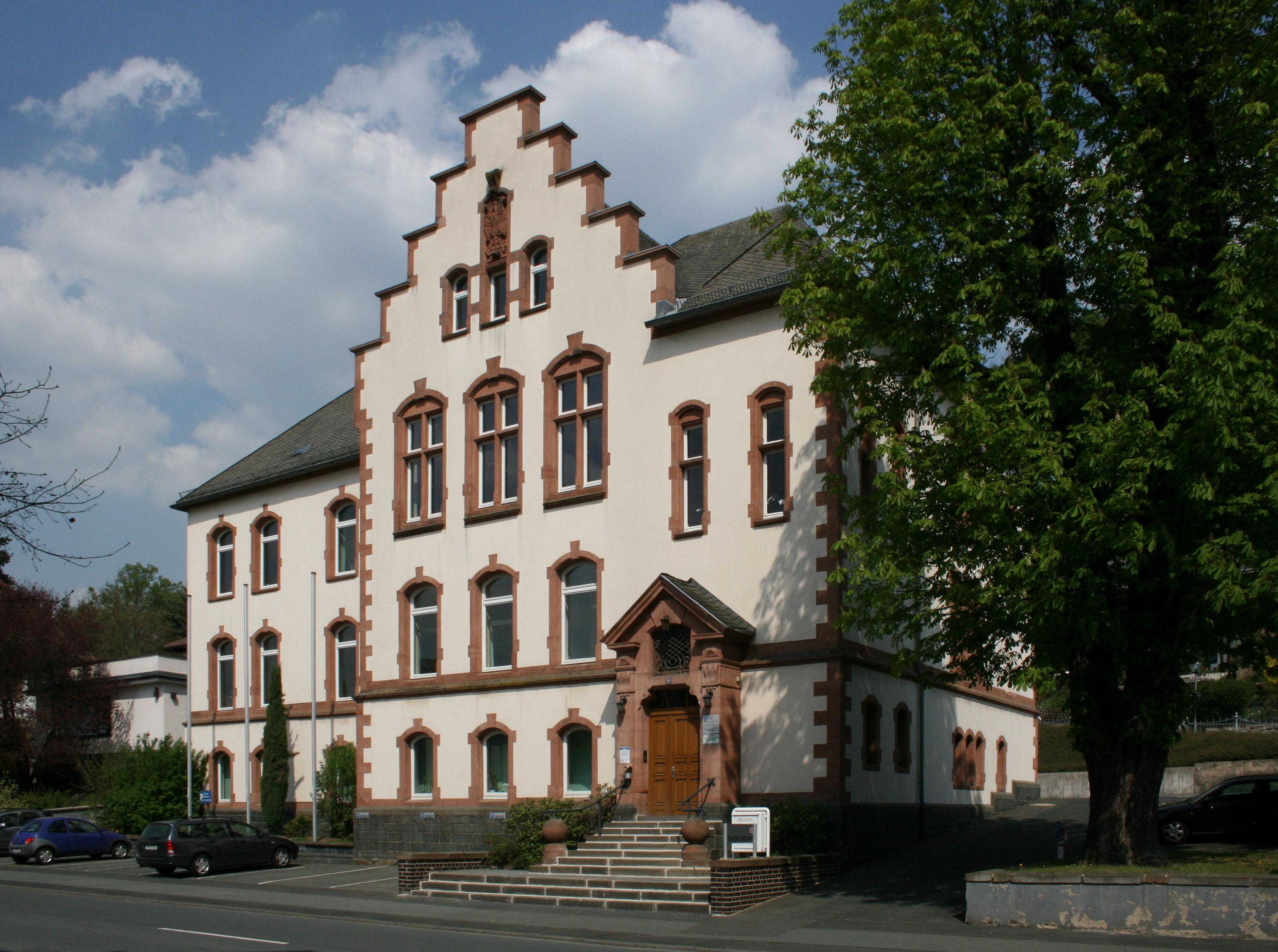 Germany, Hesse, Biedenkopf/Lahn: Main building of the district court in the Hainstrasse 72. As a new building with representative stepped gable (locally rare) for the former Royal Prussian Court Biedenkopf built in 1893. Protection of historical monument.